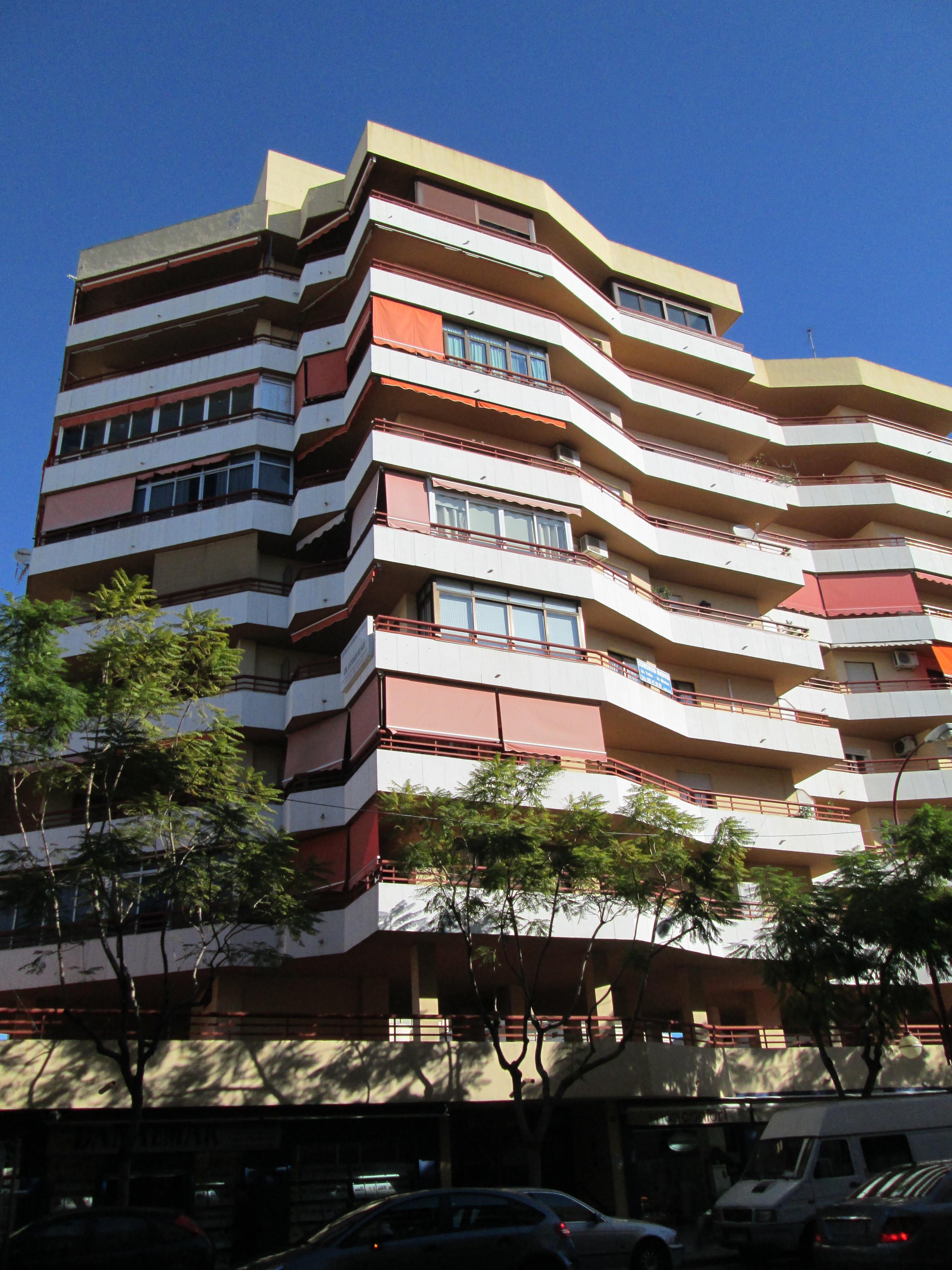 Fuengirola